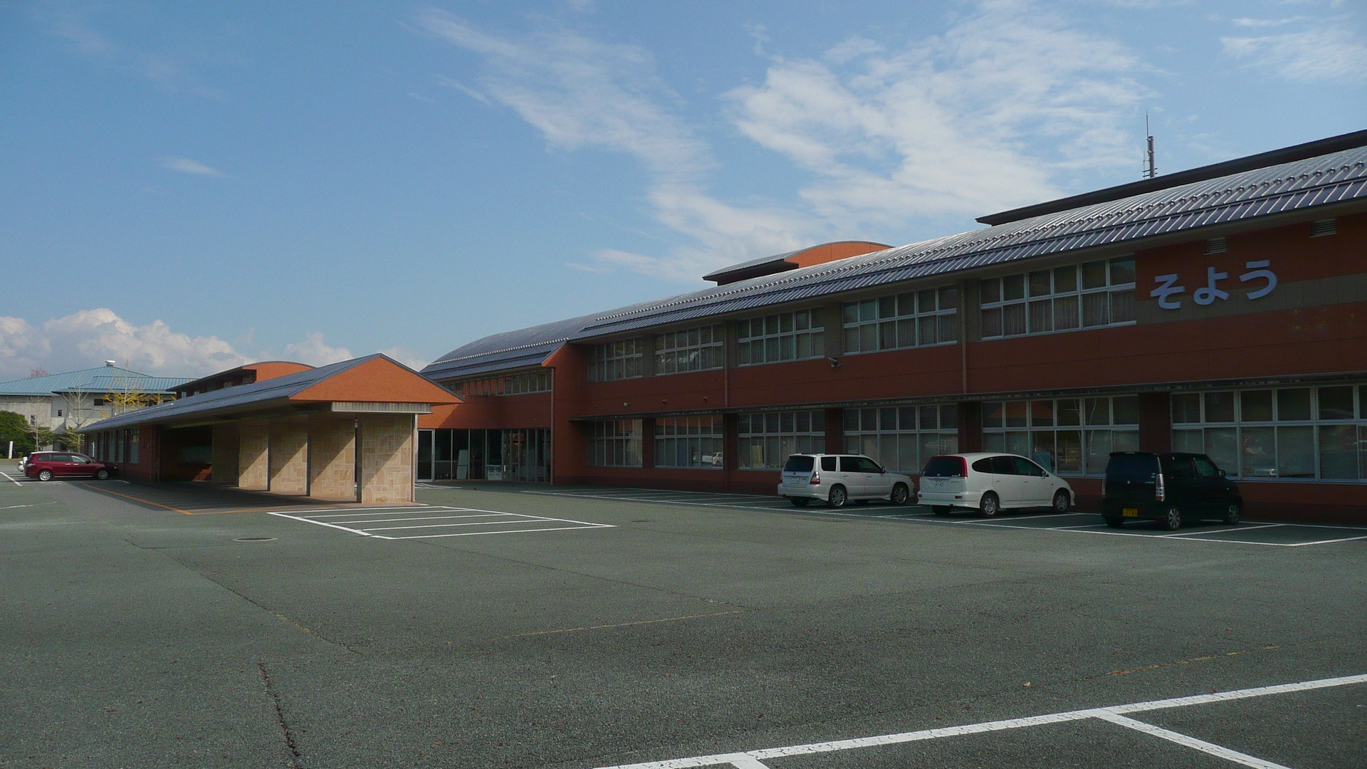 Yamato Town Office Soyo Synthesis Branch (Kumamoto Prefecture, Japan)